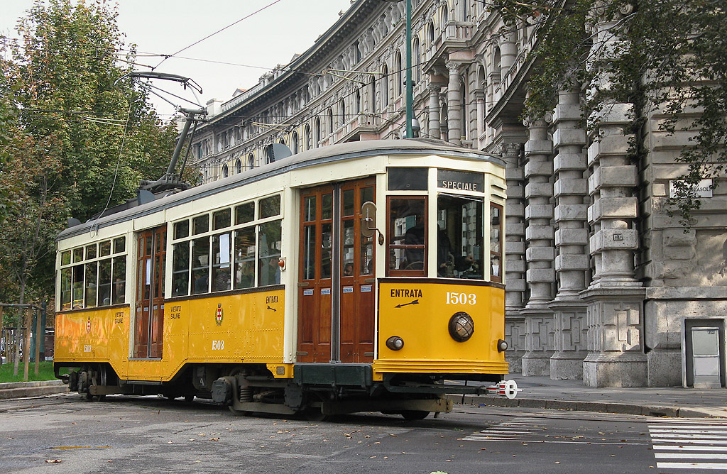 Tram No. 1503 of ATM Milano, restored to its original condition, starting to turn south into Via Risacoli from Piazza Castello, in 2012.